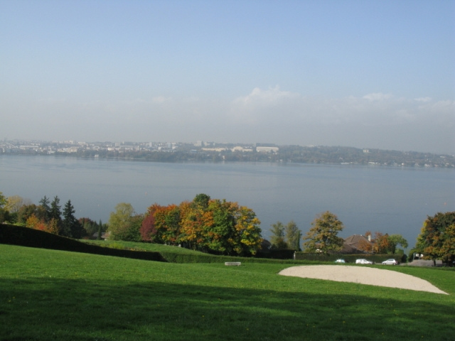 Looking across Lake Geneva from Cologny, GE, Switzerland